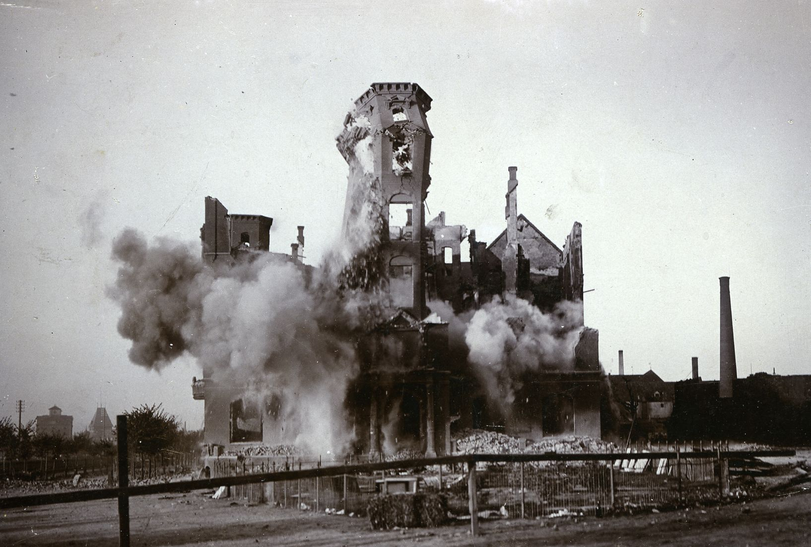 Mejlborgs brand - beskydning af ruinerne. 1899. Af fotograf Thomas Sørensen Hermansen. Fra Hovedbibliotekets Lokalhistoriske Samling